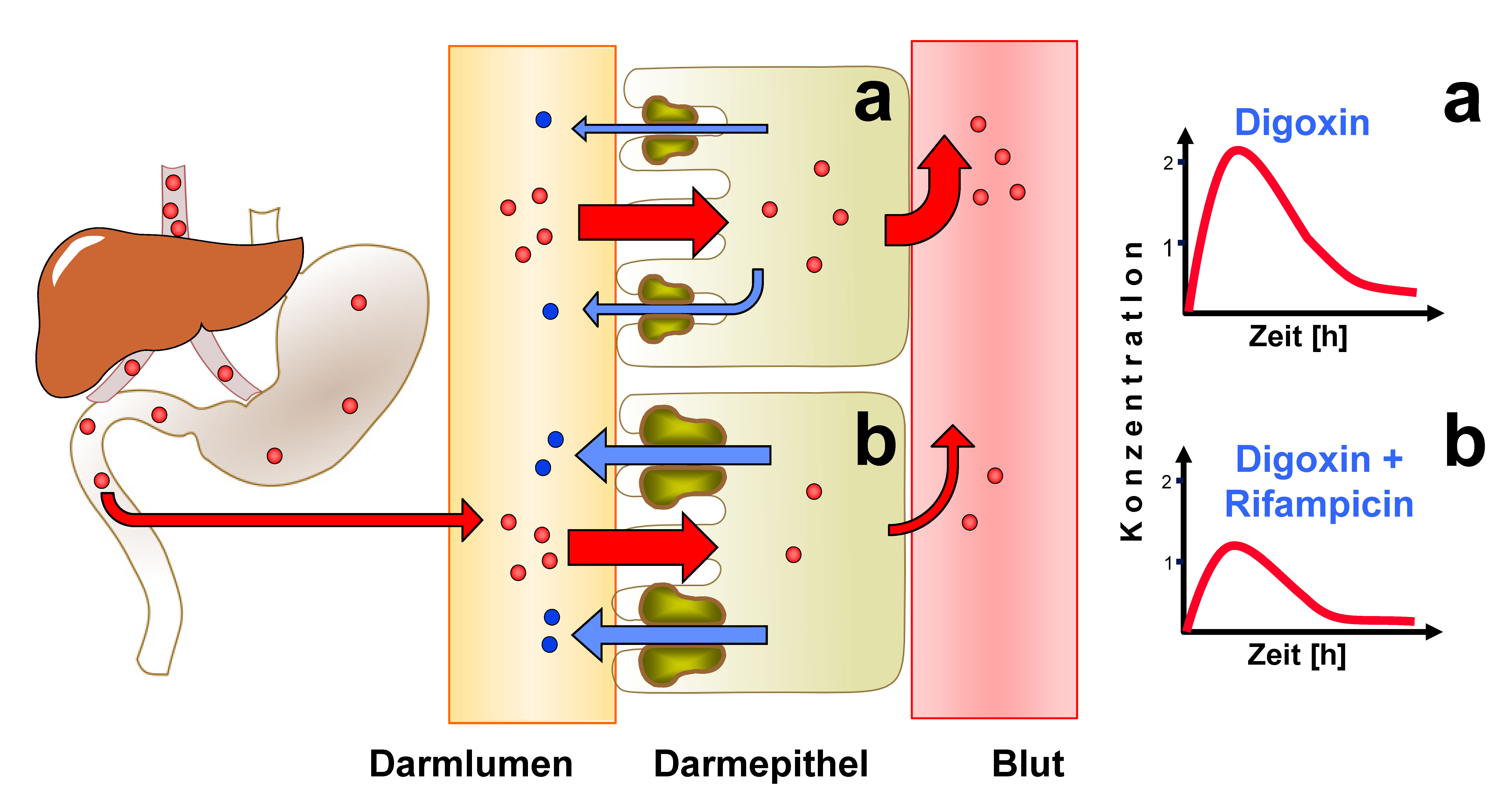 Interaction of rifampicin and digoxin in the intestine